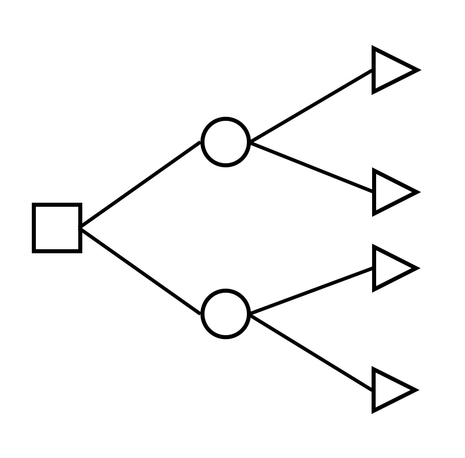 Otsustuspuu sõlmed ja harud